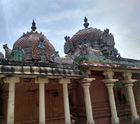 Vimanas of Agnipurisvarar and Varthamanisvarar, Agnipurisvarar Temple, Tirupugalur, Nagapattinam District,Tamil Nadu, India